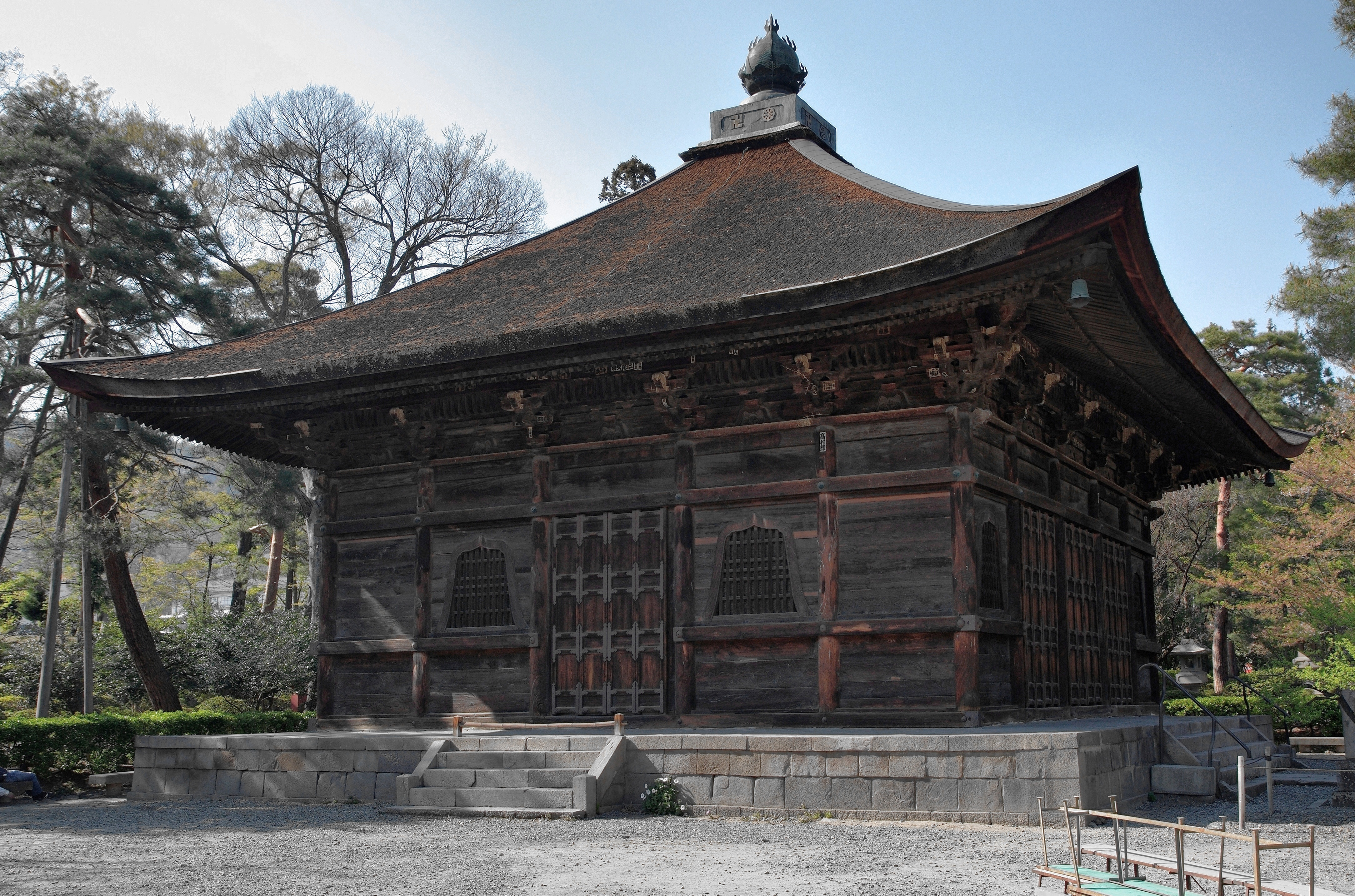 Kyōzō (Sutra Library) Zenkōji is a Buddhist temple in Nagano City, Japan.